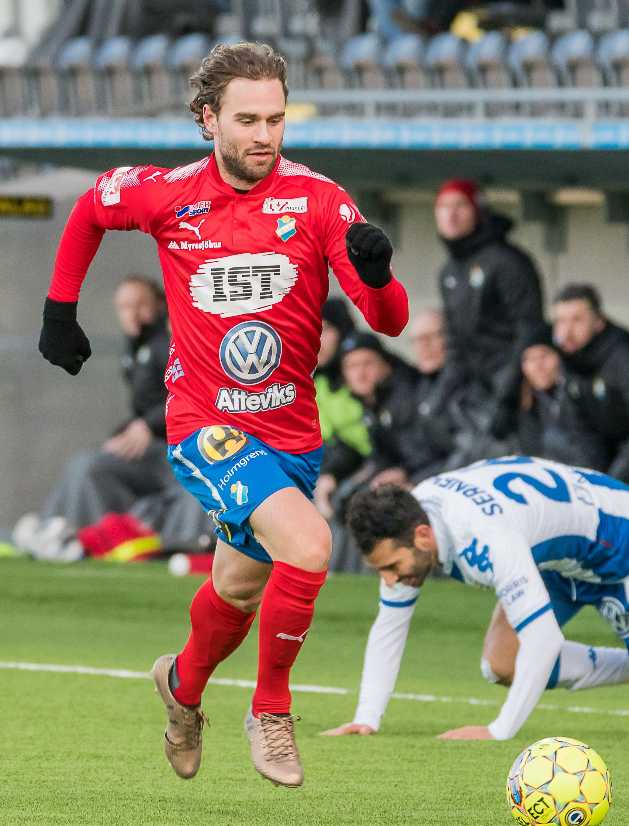 Swedish footballerSimon Helg playing for Östers IF vs IFK Göteborg in Svenska Cupen 2017/18, Grupp 7